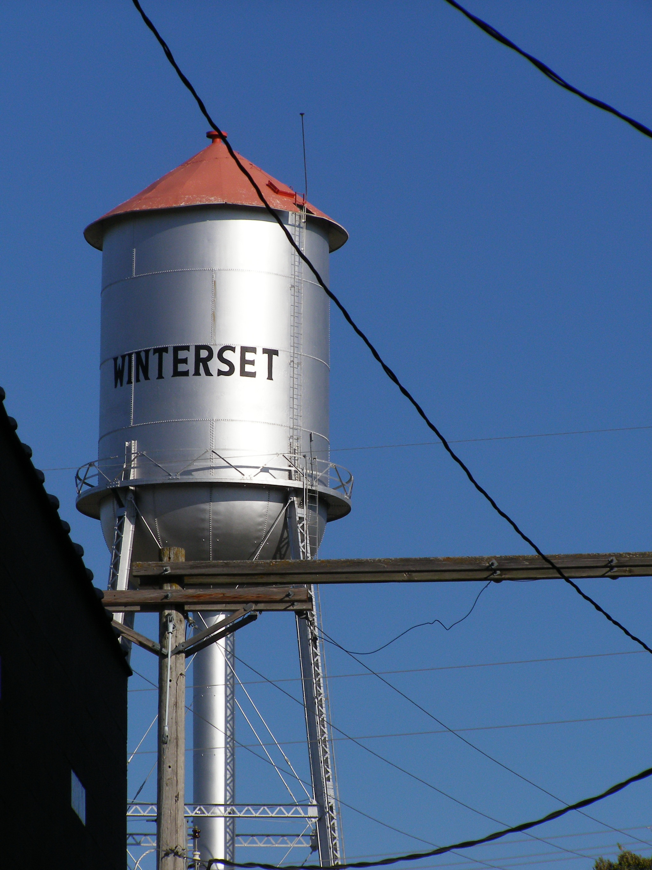 Water tower in Winterset, IA. United States.